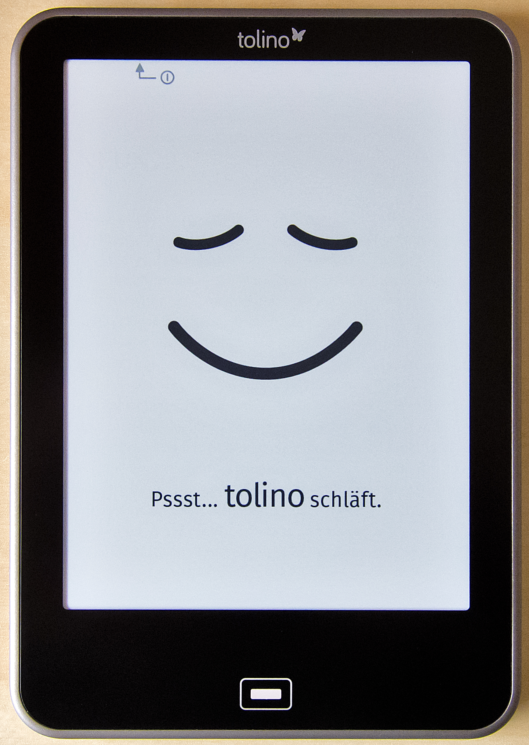 tolino vision E-Book reader front sleep mode